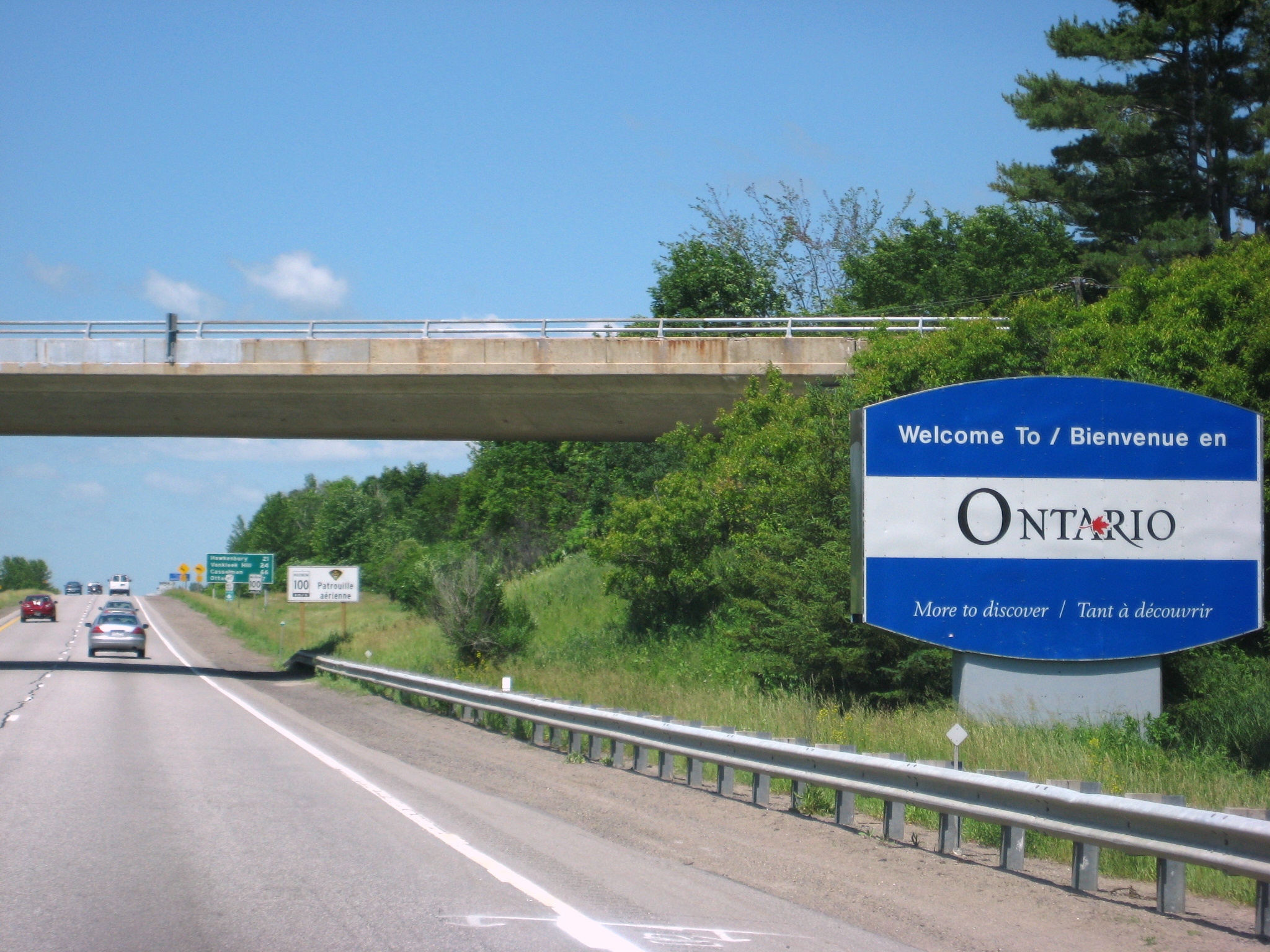 Entering Ontario on Highway 417.